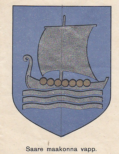 Coat of arms of Saare County, Estonia, 1937